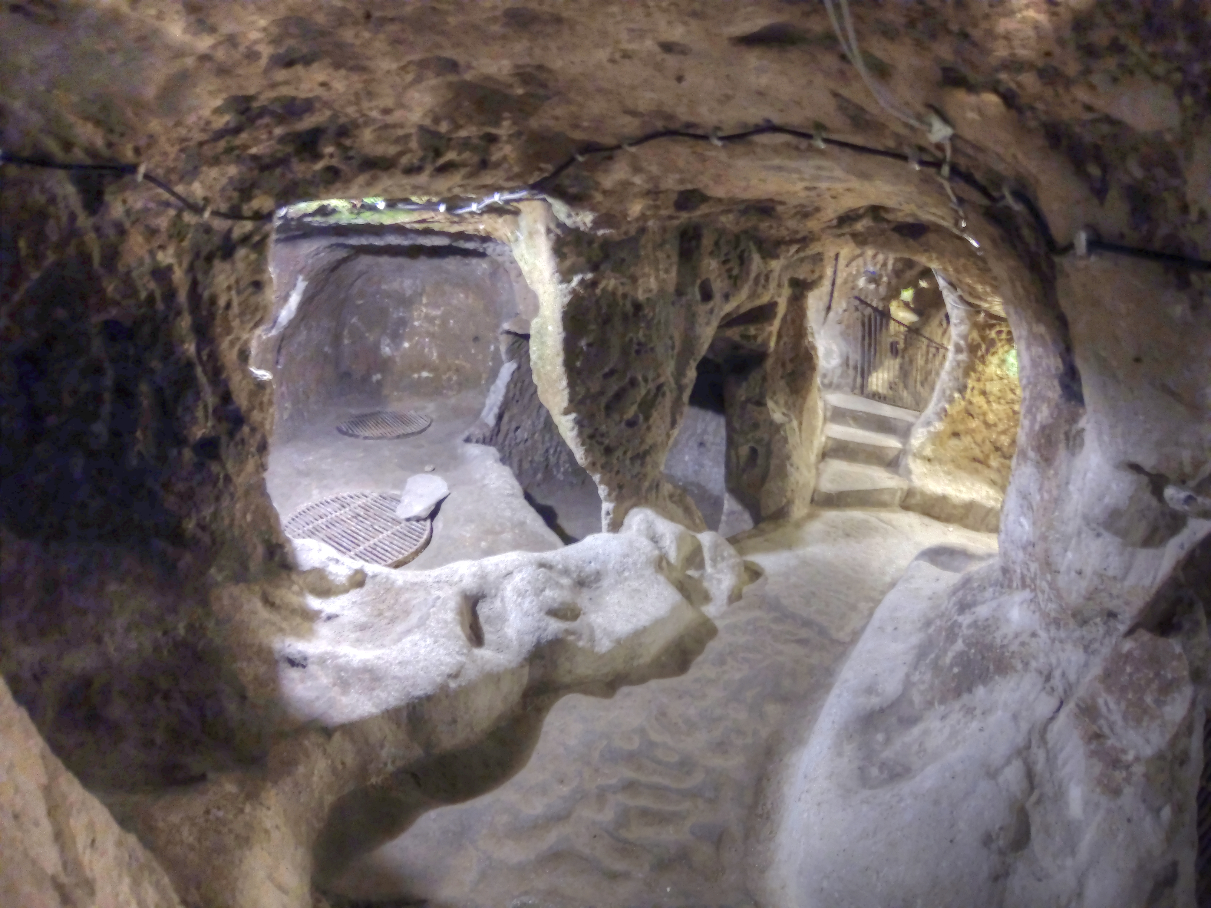 Derinkuyu Underground City in Cappadocia, Turkey. Christians fled the enemies and hid in this underground cities.